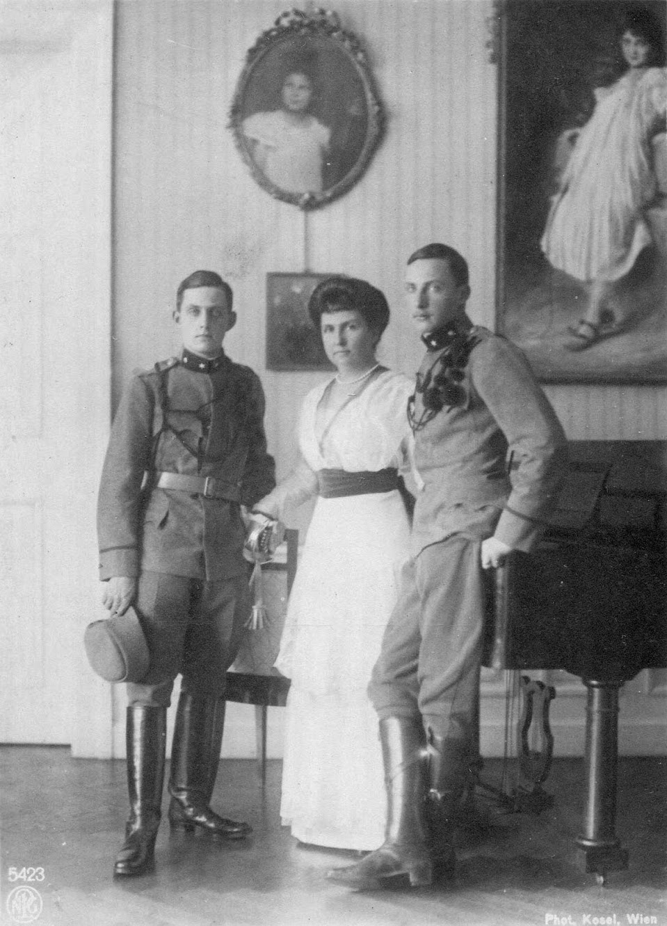 Archduchess Blanca with her sons Archdukes Rainer (right) and Leopold ( left).